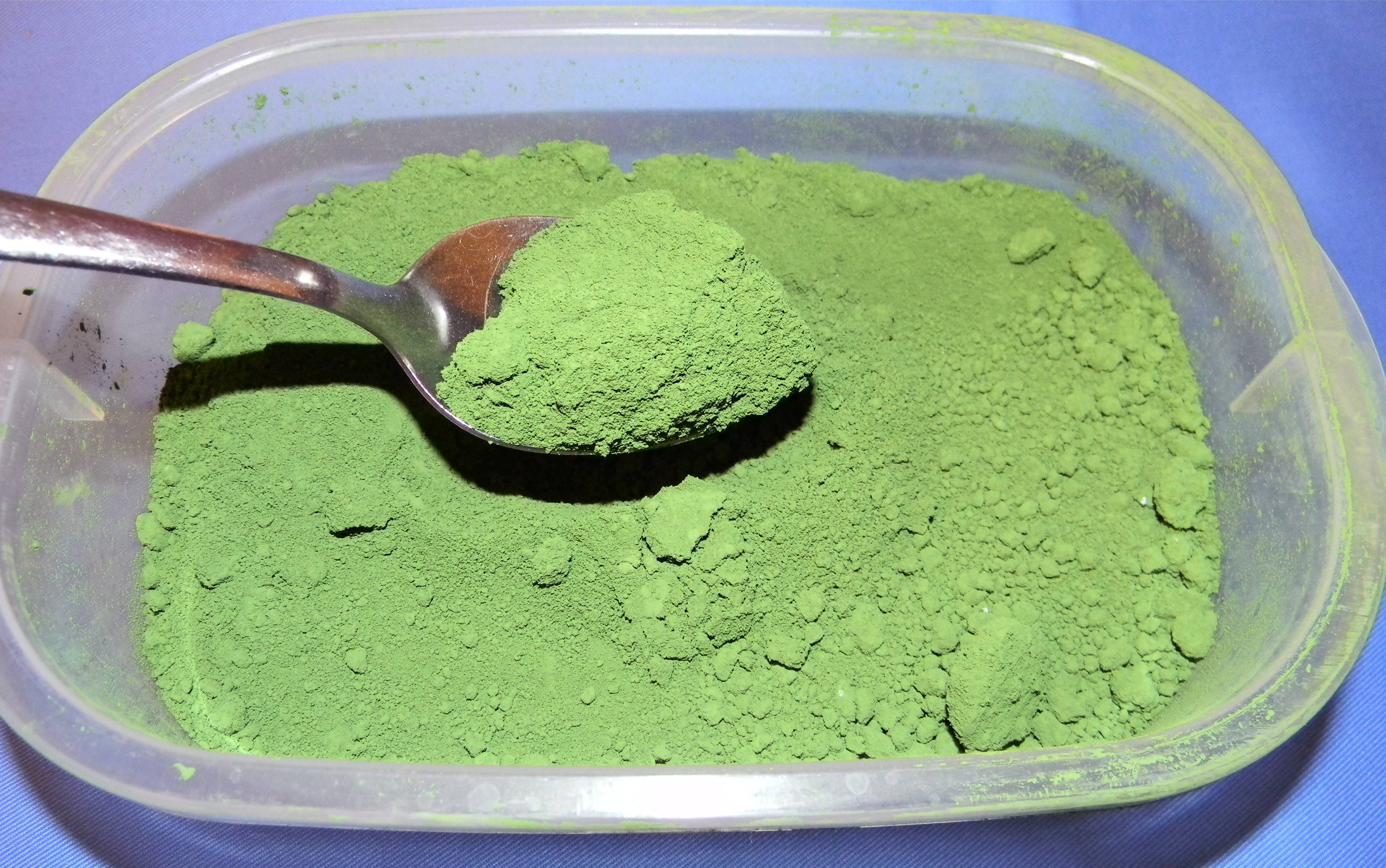 Chromium(III) oxide Cr2O3 Pigment